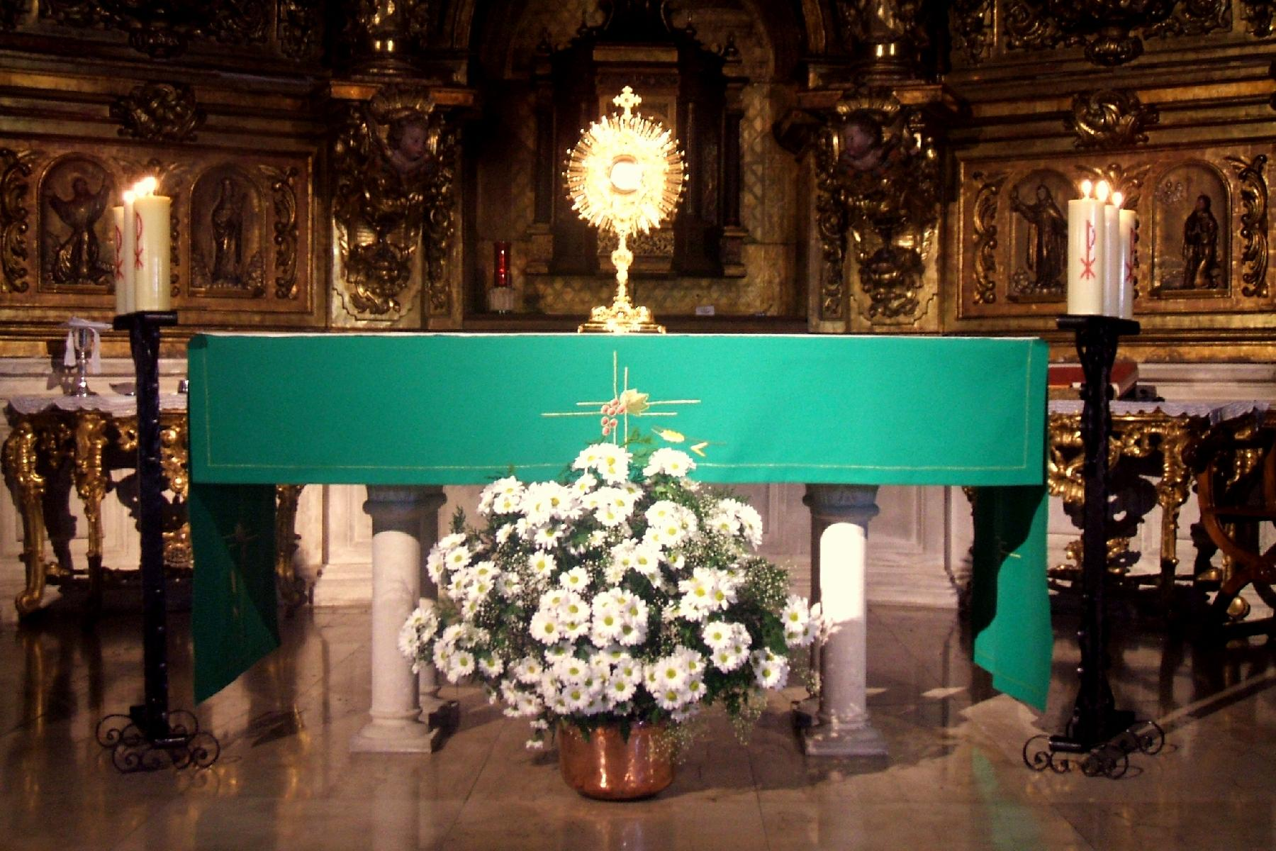 Altar mayor de la iglesia del Convento de Santa Clara, Burgos (Castilla y León, España)